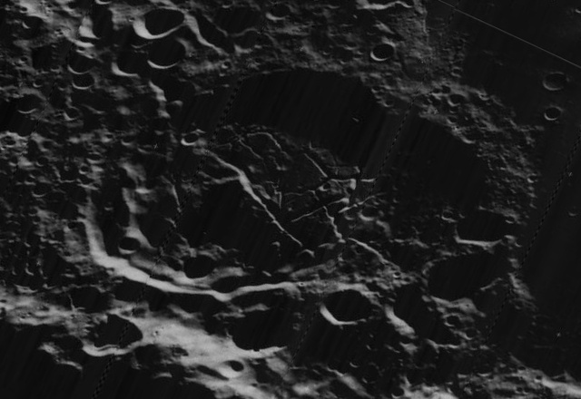 Oblique view of Komarov crater, facing west